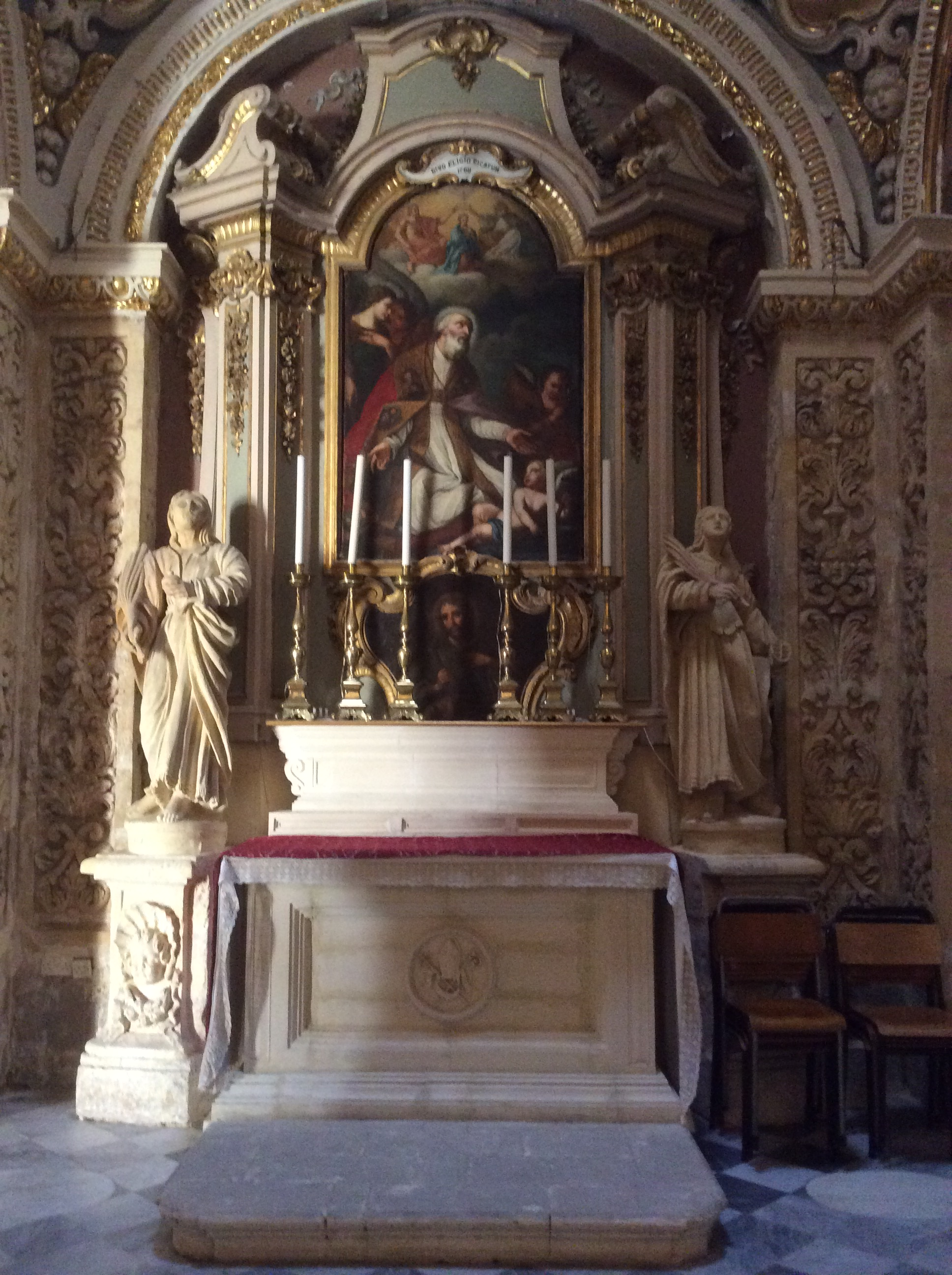 Ta Giezu Church